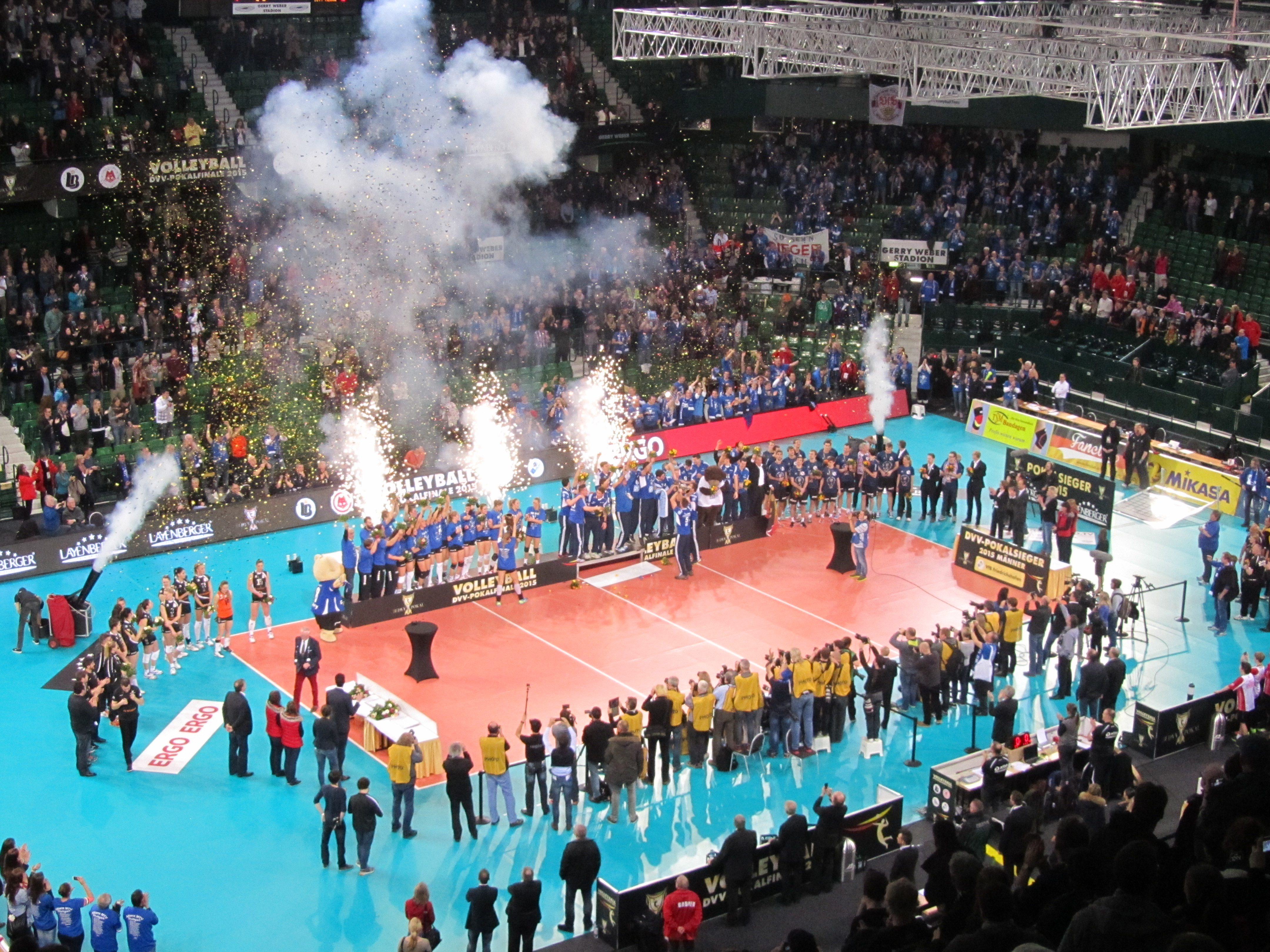 medal ceremony at the German volleyball cup final 2015; on the left side the women's teams Allianz MTV Stuttgart (winner) and Ladies in Black Aachen (runner-up), on the right side the men's teams VfB Friedrichshafen (winner) and SVG Lüneburg (runner-up)